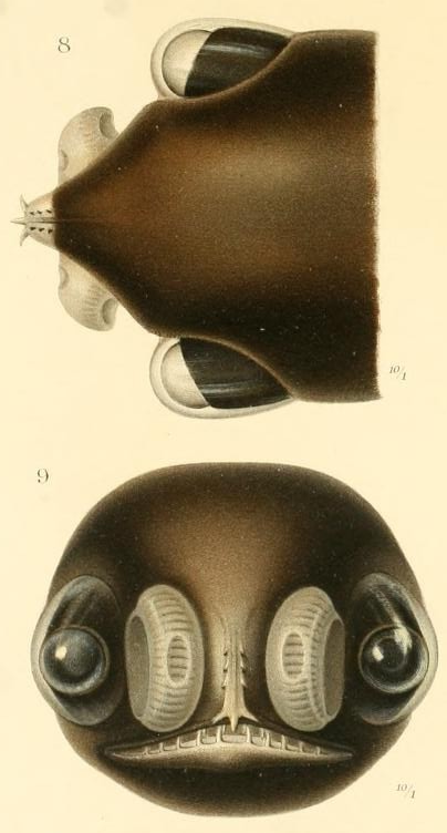 Three views of the head of Linophryne indica from Bauer 1908. Note Bauer labeled this Aceratias macrorhinus indicus.